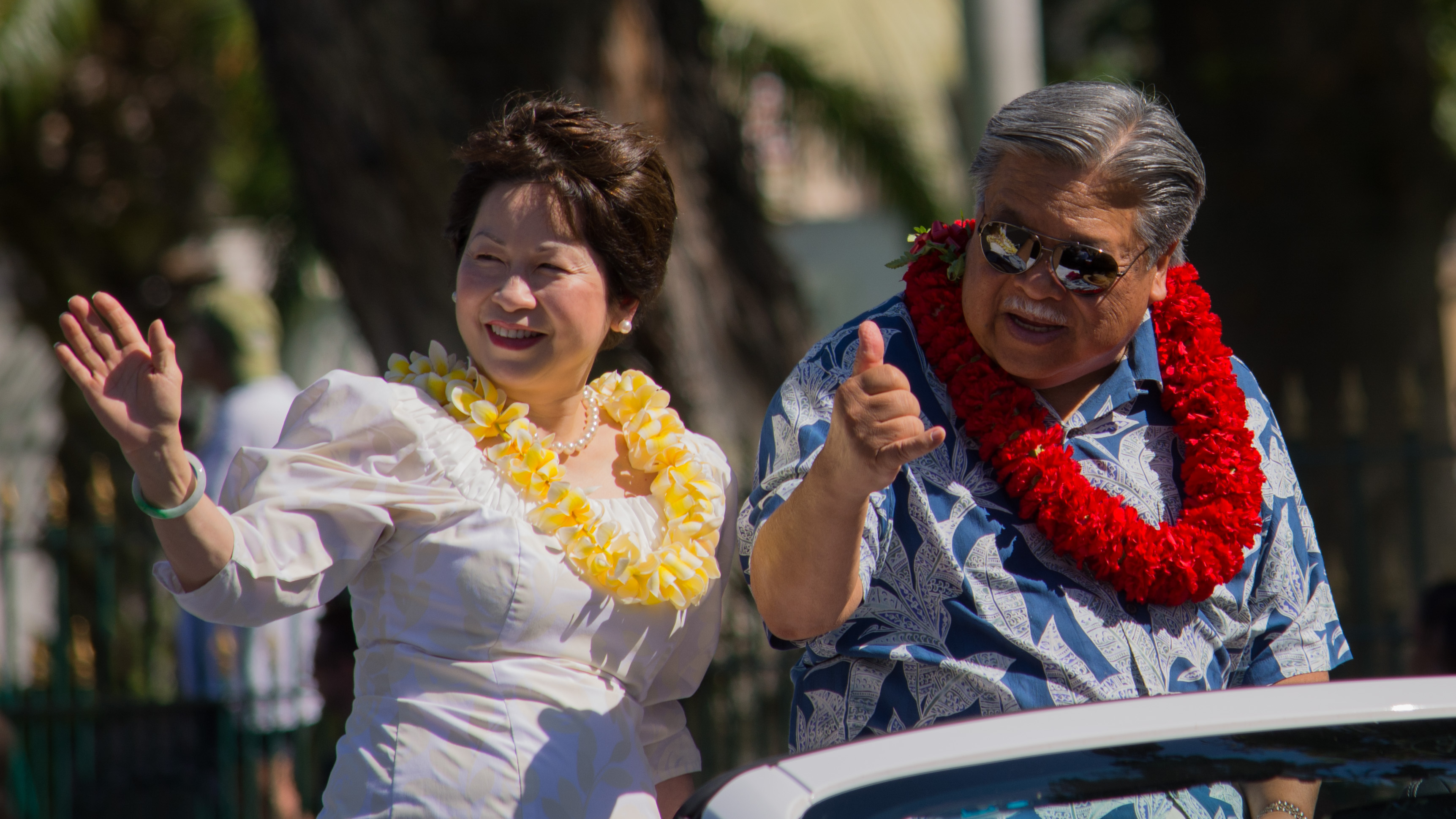 Former Hawaii First Lady Vicky Cayetano and former Hawaii Governor Ben Cayetano ride in the 100th King Kamehameha Parade in Honolulu in 2016